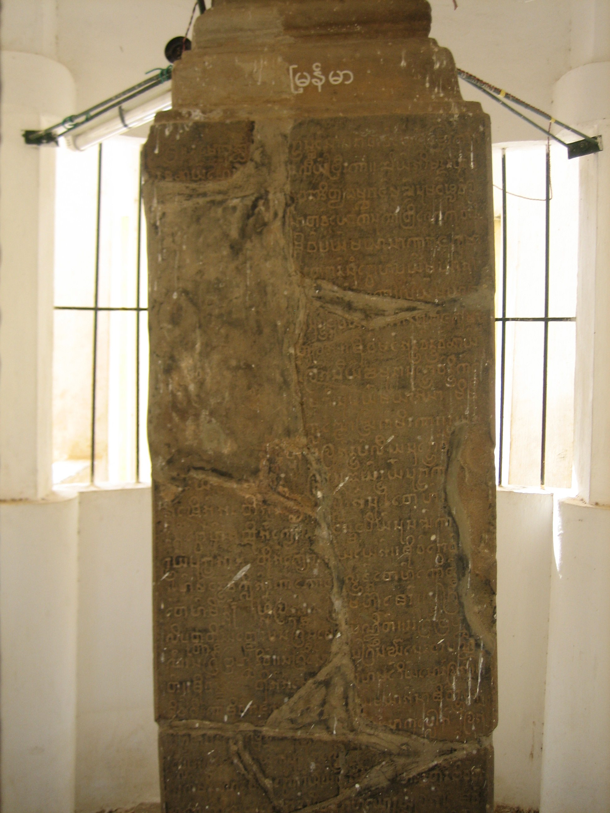 Myazedi Inscription in Burmese -- The very first known evidence of written Burmese (1113).